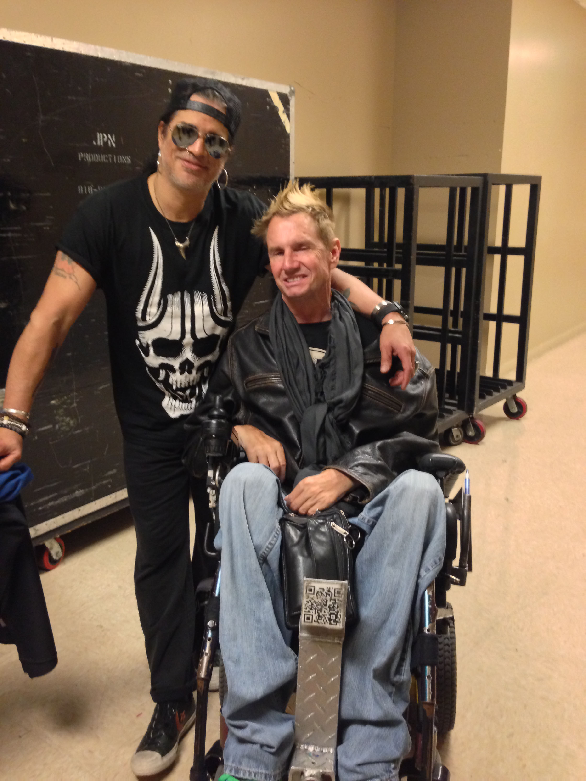 Guitarist Slash (Guns n' Roses, Velvet Revolver) with abstract impressionist artist Tommy Hollenstein at the Pechanga Resort and Casino, Temecula, California, in August 2014. Slash is one of Hollenstein's celebrity patrons, along with Elton John, Ringo Starr, author Dean R. Koontz, and many others.